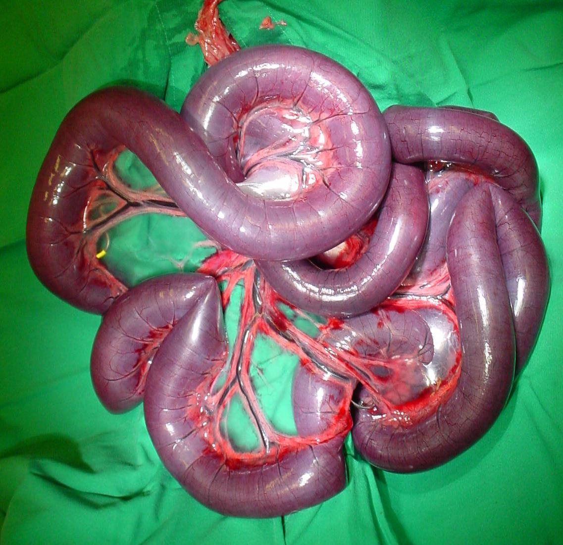 Complete mesenteric volvulus in a german shepherd dog. Note the discolored, dilated and atonic parts of mesenteric intestine, congestion of the mesenteric vessels and hemorrhagic areas